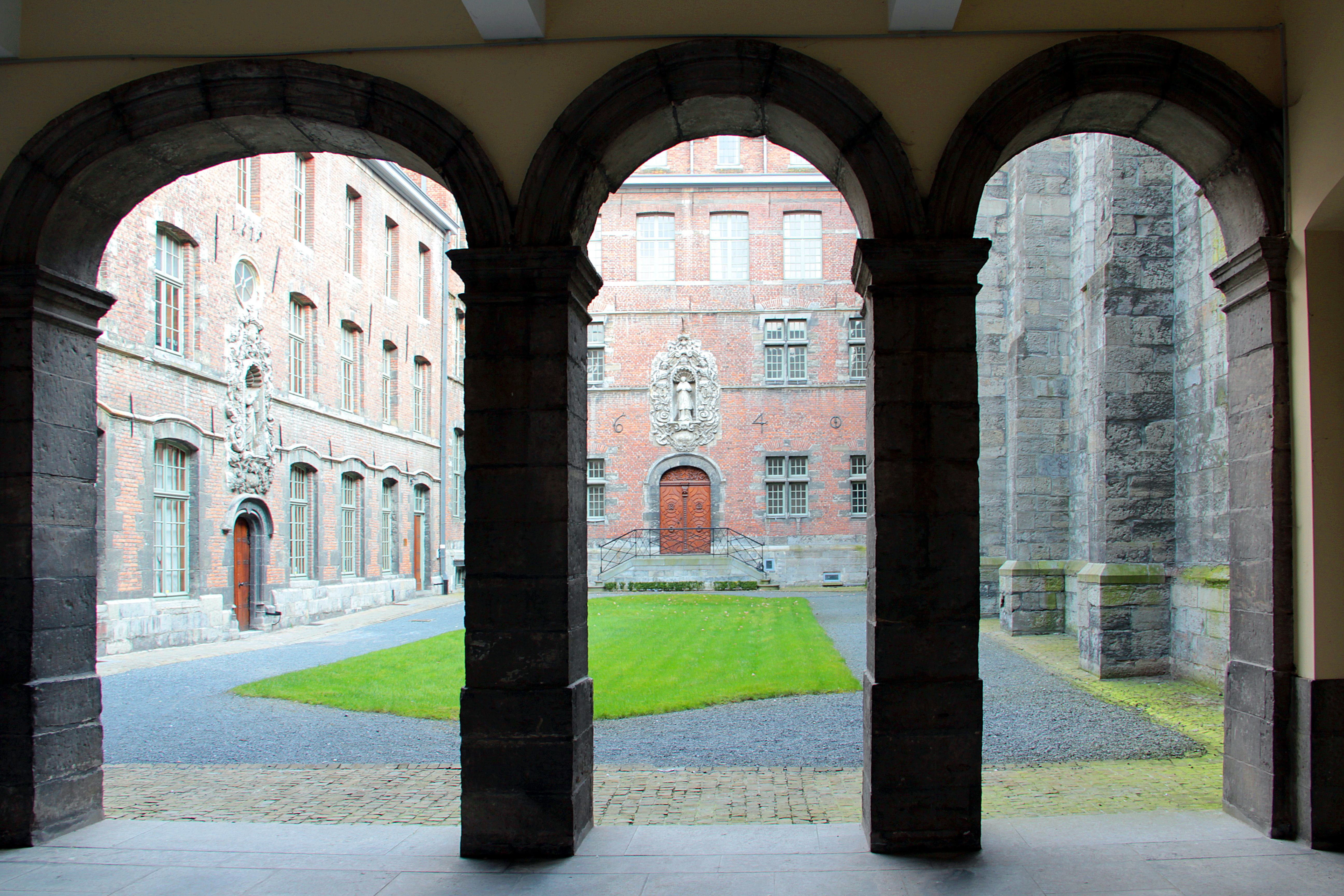 Tournai (Belgium), the episcopalian seminary (1640).